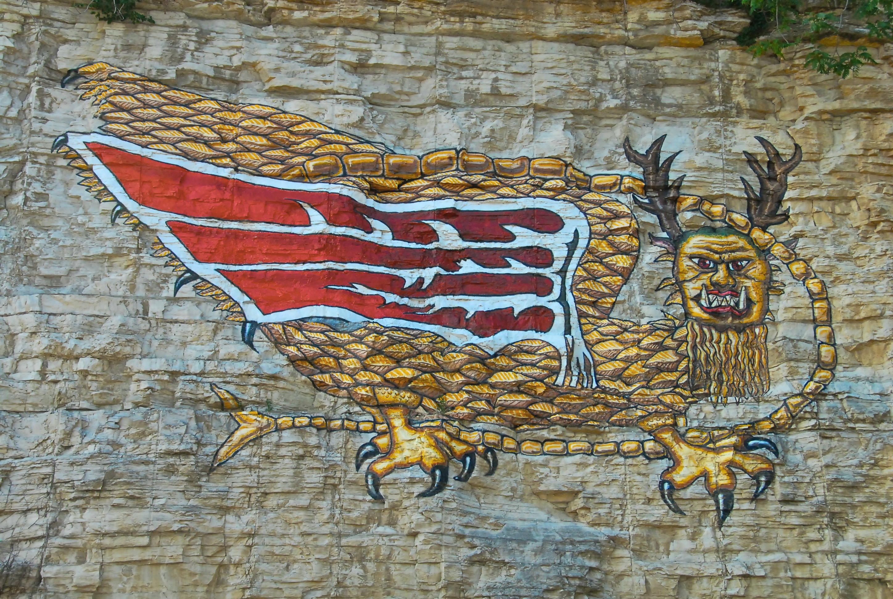 Piasa Bird on cliffs NW of Alton, IL. Taken with a Nikon D200 at 60mm (35mm equiv), ISO 800, f/8, 1/640 sec.